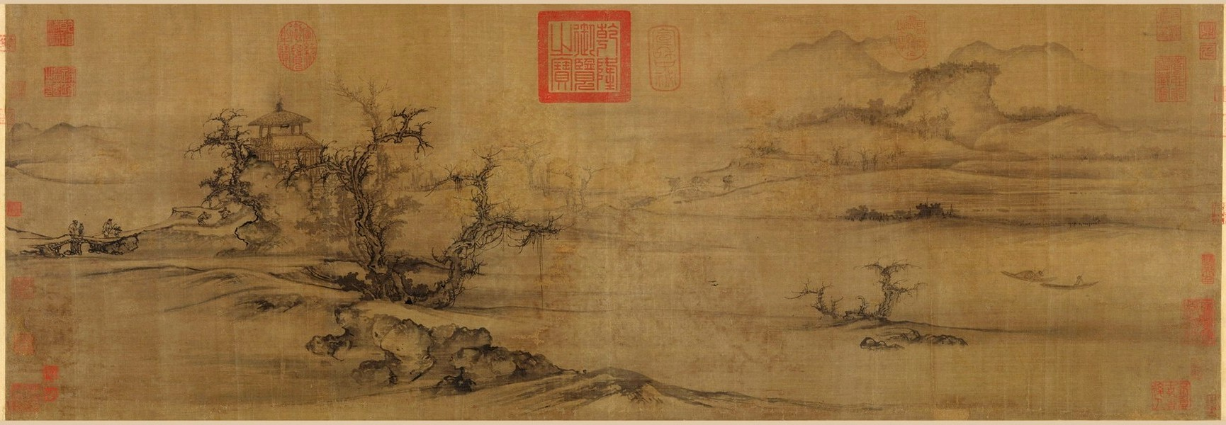 Guo Xi. Old Trees, Level Distance, ca. 1080. Handscroll, 34,9x104,8. Metropolitan Museum of Art N-Y